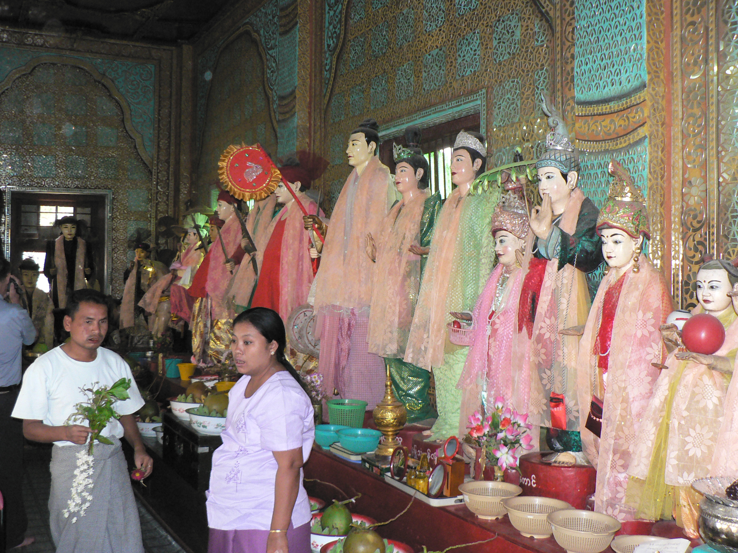 Nats on Mount Popa, Myammar